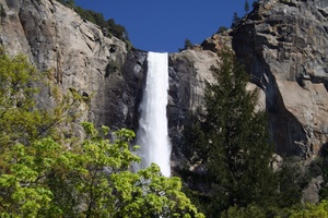 Bridalveil Fall at Yosemite National Park